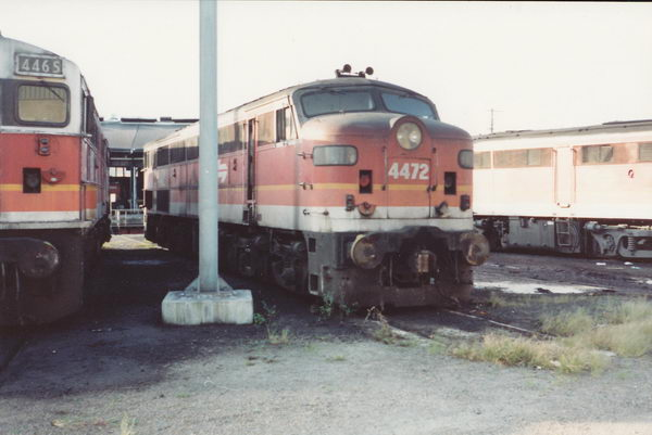 4472 with 4465 at broadmeadow loco circa 1990